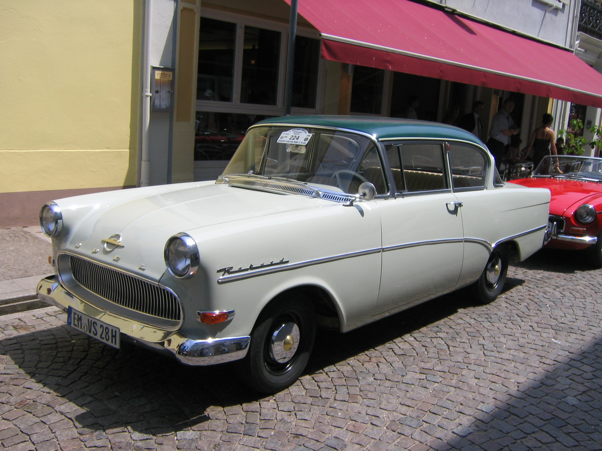 Opel Rekord P1, recorded during an oldtimer meeting at Emmendingen, Germany